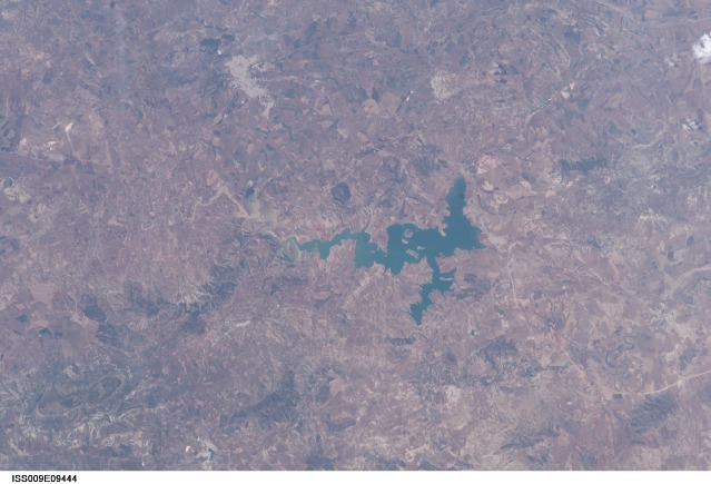 Barrage Sidi Salem, Testour, Bou Salem - Tunisia